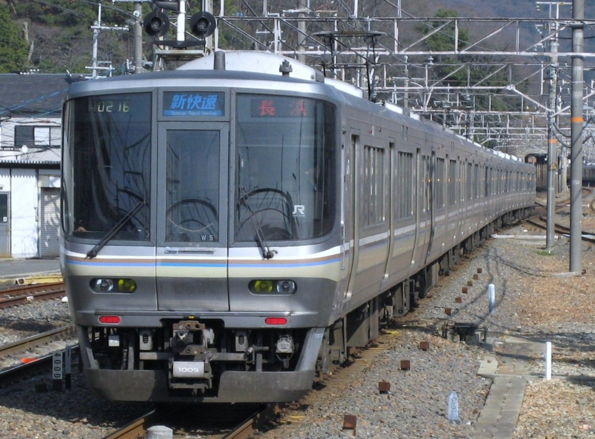 223 Series EMU of the West Japan Railway Company